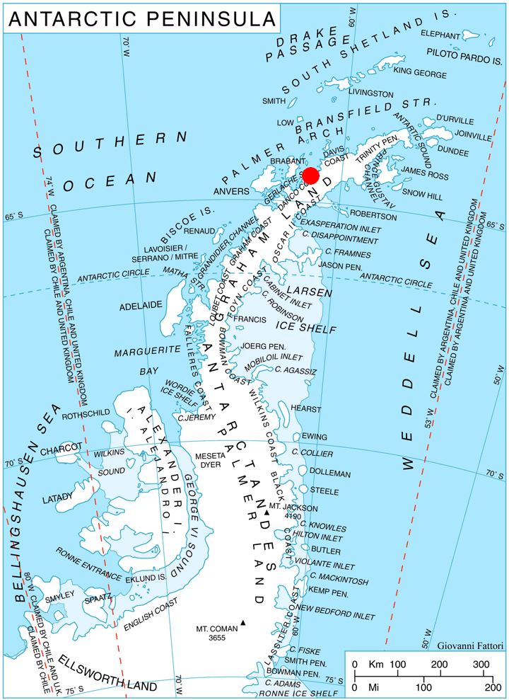 Location of Pefaur (Ventimiglia) Peninsula, Antarctica.